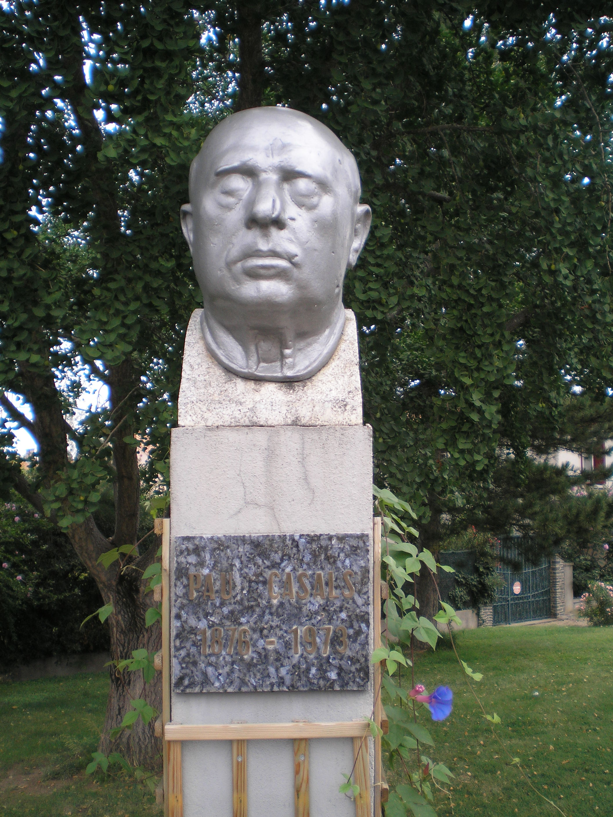 Bust of Pau Casals in Prada de Conflent, village where he lived